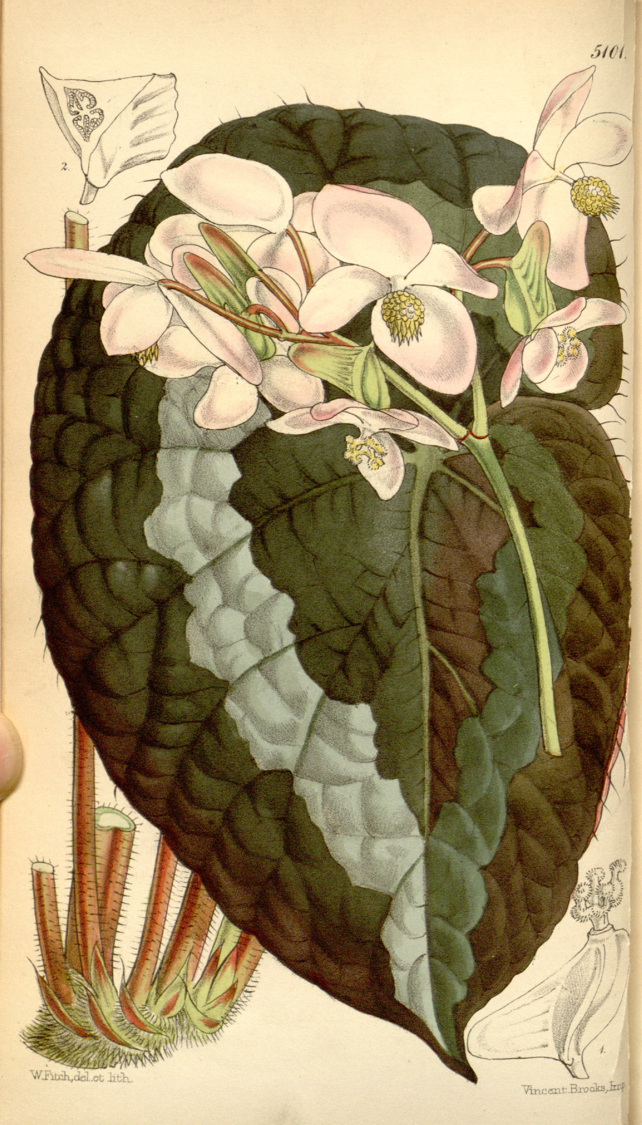 Begonia rex